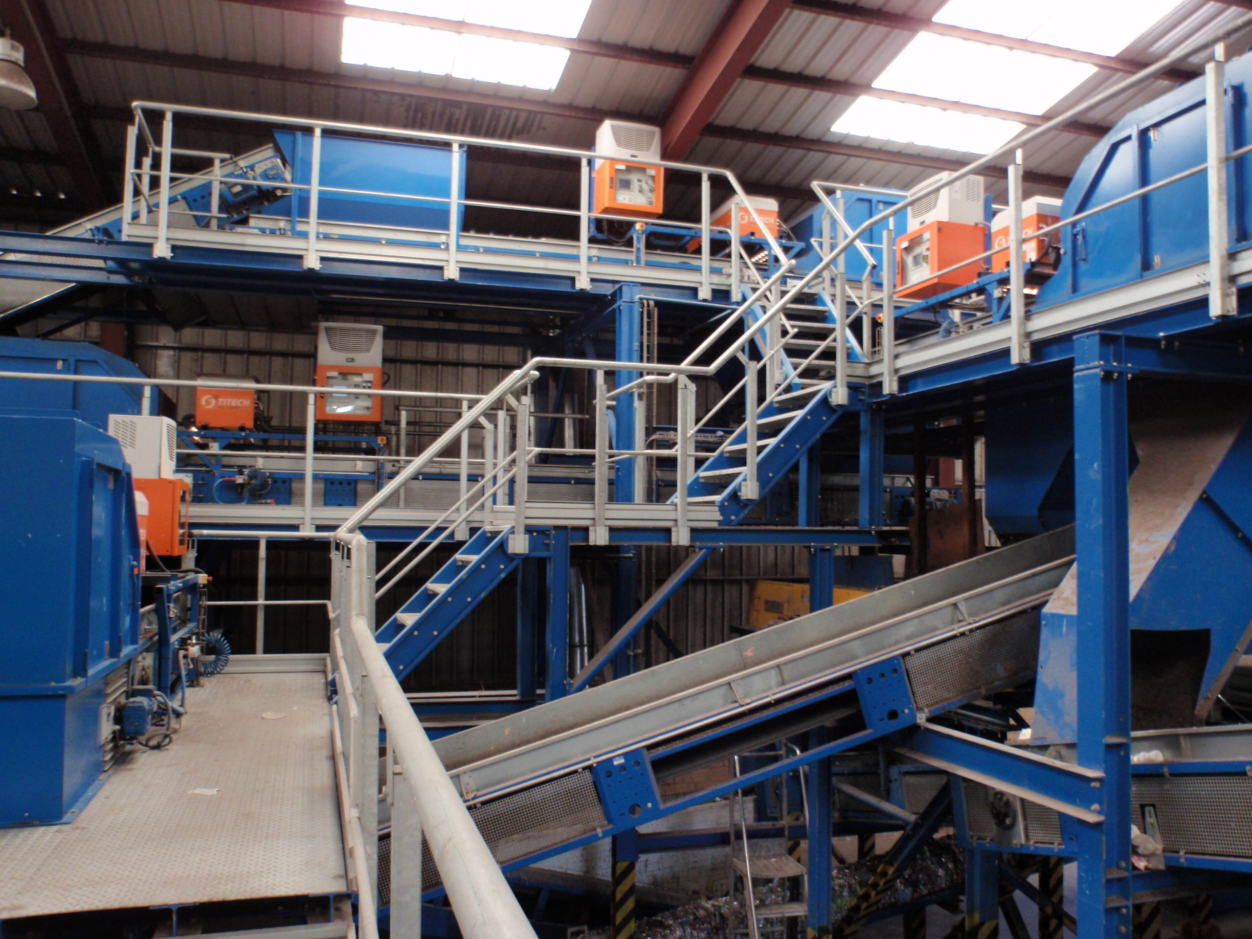 Optical separator chain